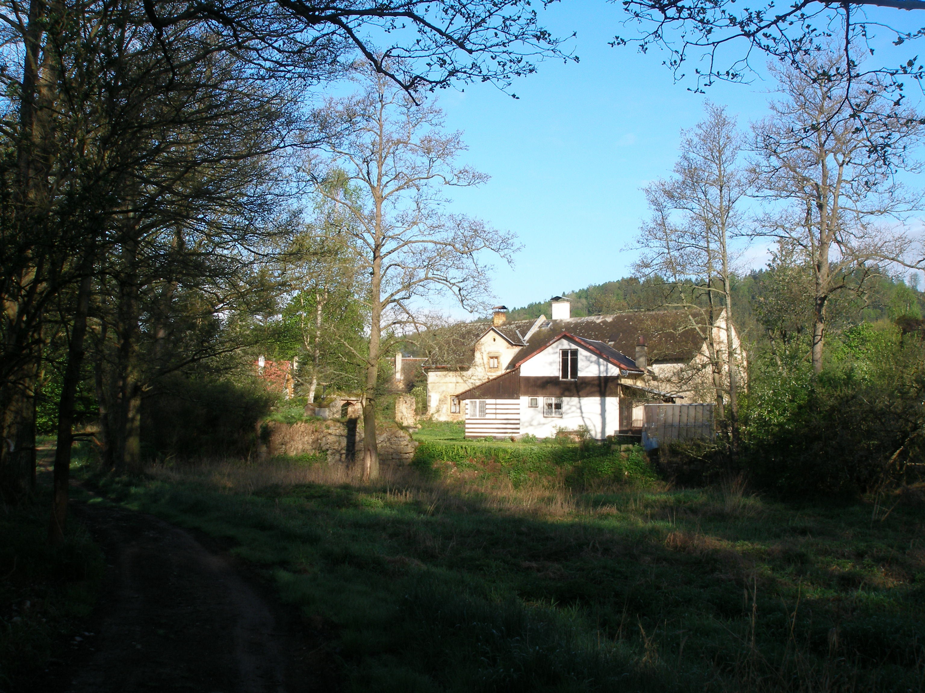 Ústí - the view of the village from the south